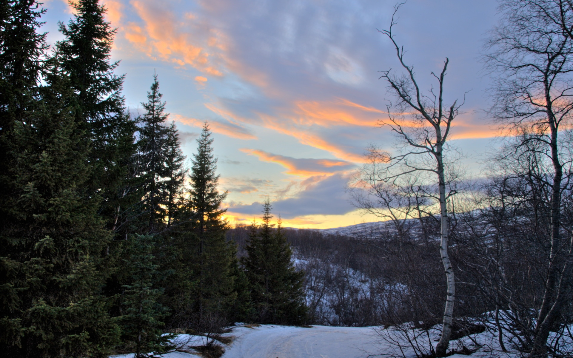 Same as "Vaglaskógur" cropped and slightly compressed to make it useable as widescreen wallpaper.